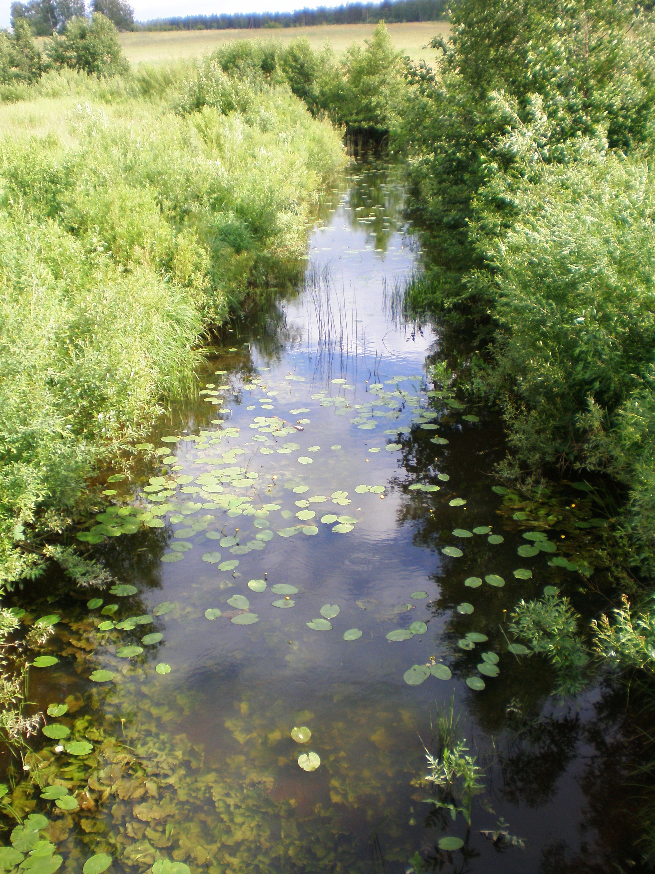 Upytė River near Naujarodžiai